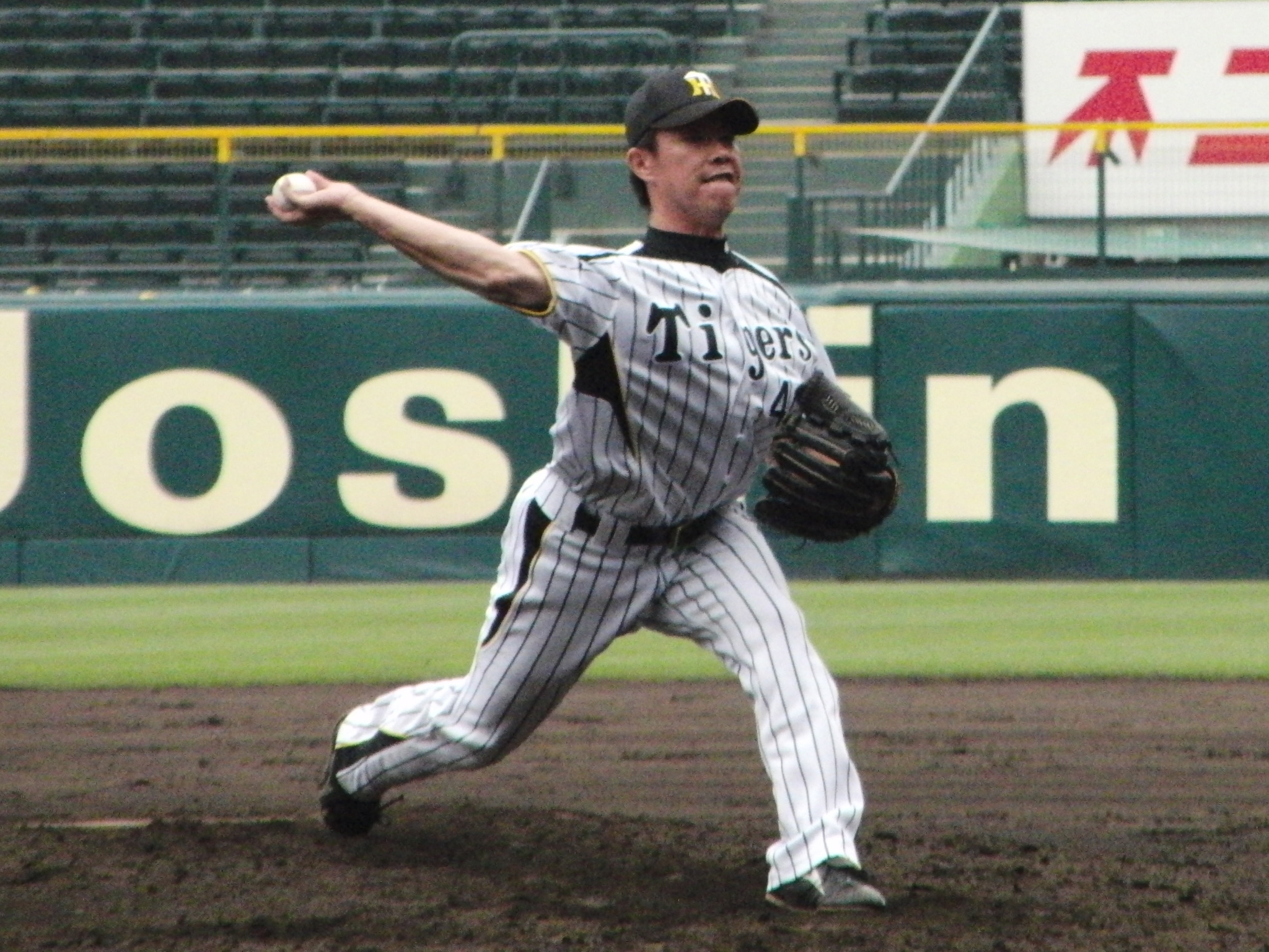 Kai-Wen Cheng, pitcher of the Hanshin Tigers, at Hanshin Koshien Stadium.